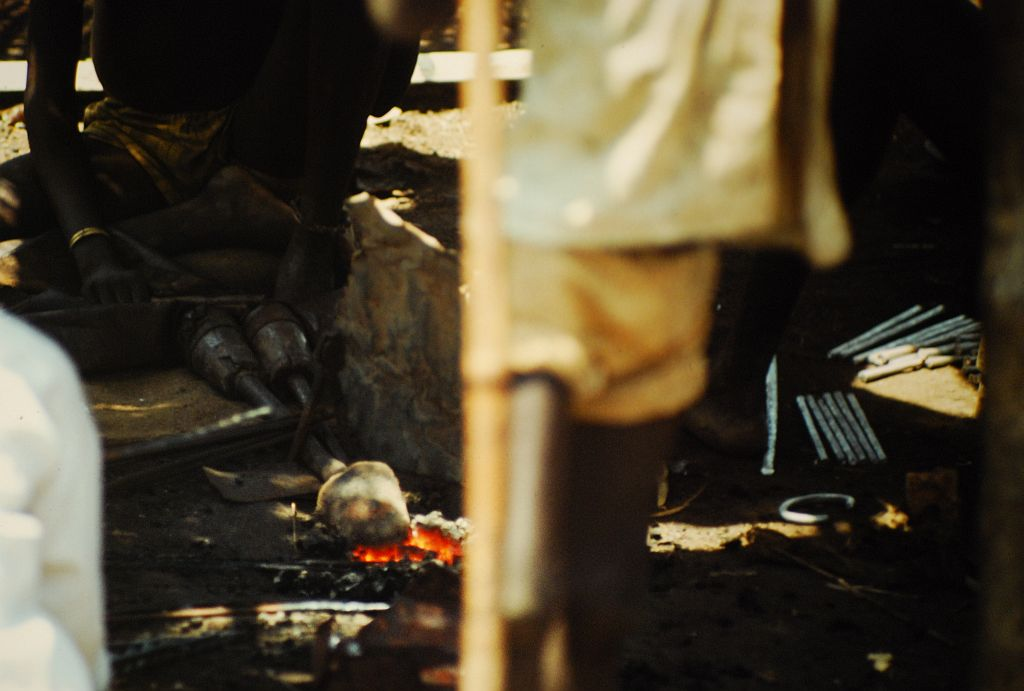 Wau, Sudan